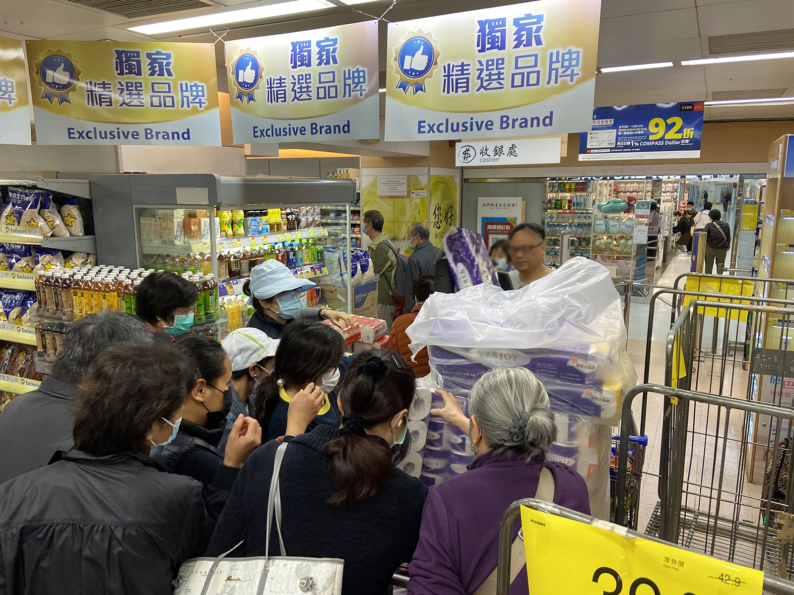 People buy the tissue at ParkNshop